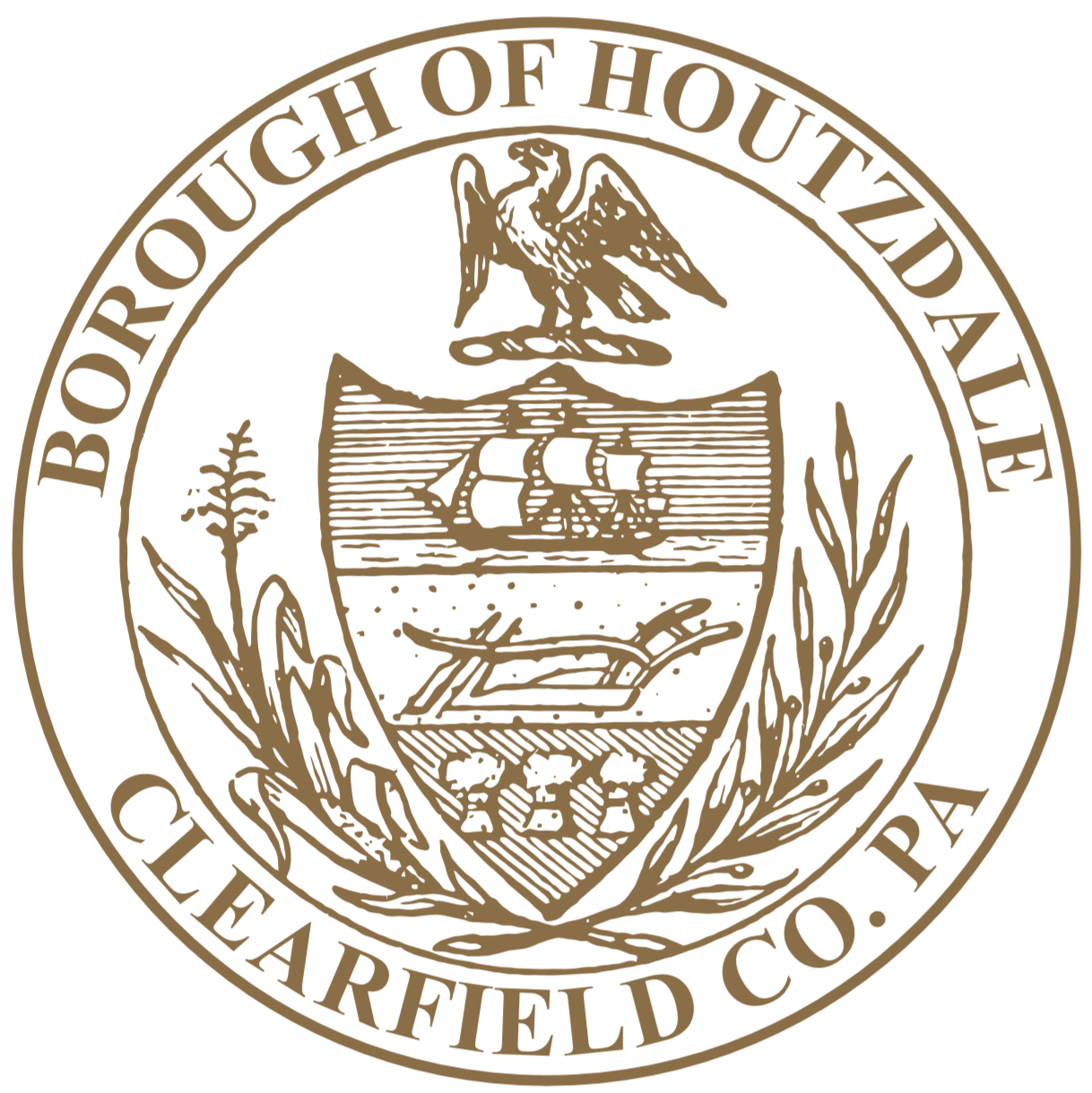 The Great Seal of The Houtzdale Borough which can only be placed on official Borough approved documents